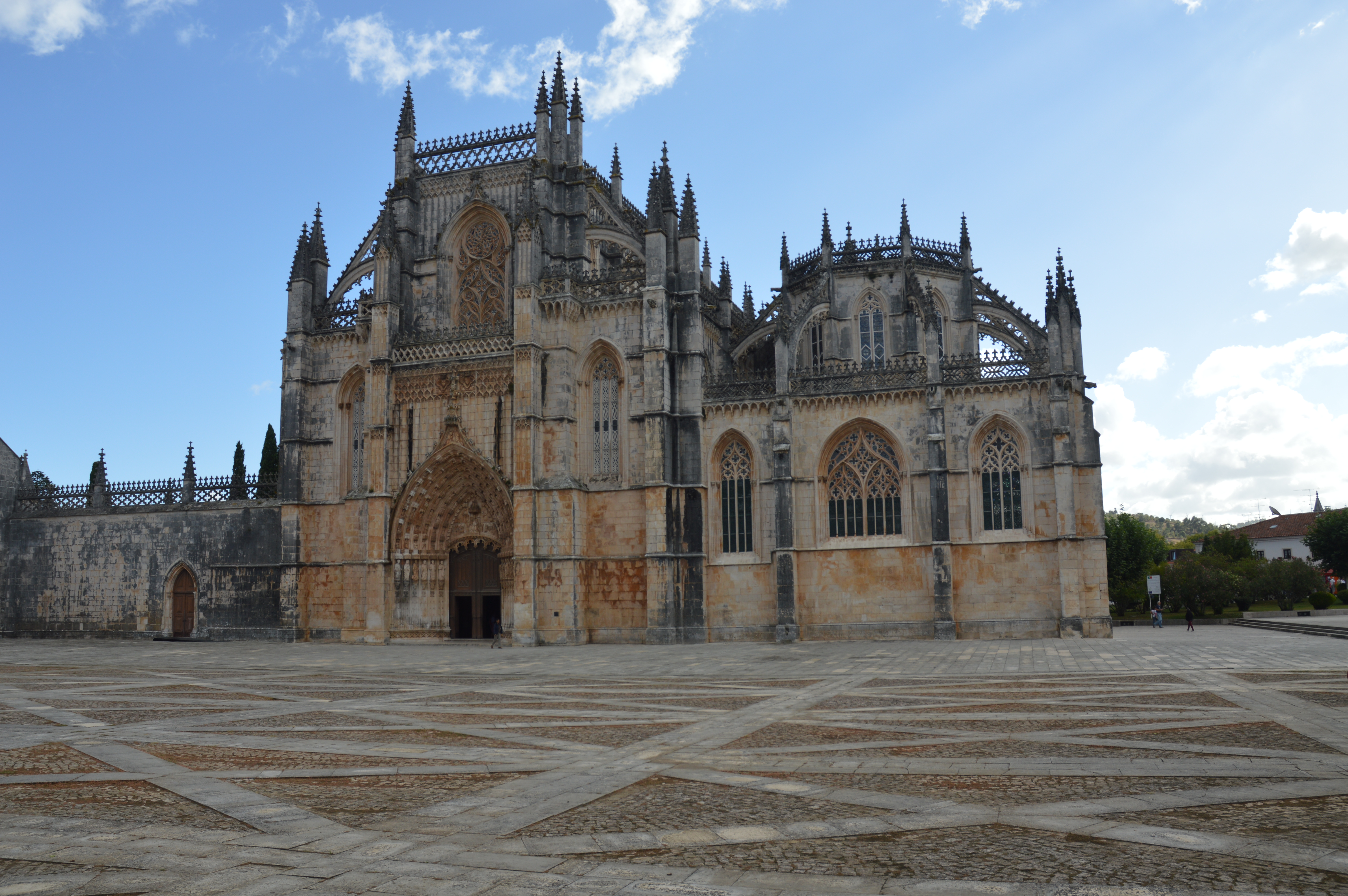 Mosteiro da Batalha, literally the Monastery of the Battle, Dominican convent in Batalha, Portugal.